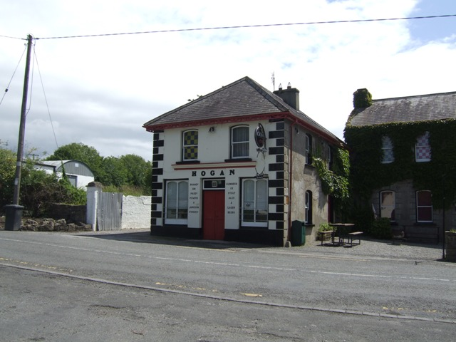 Hogan's Bar